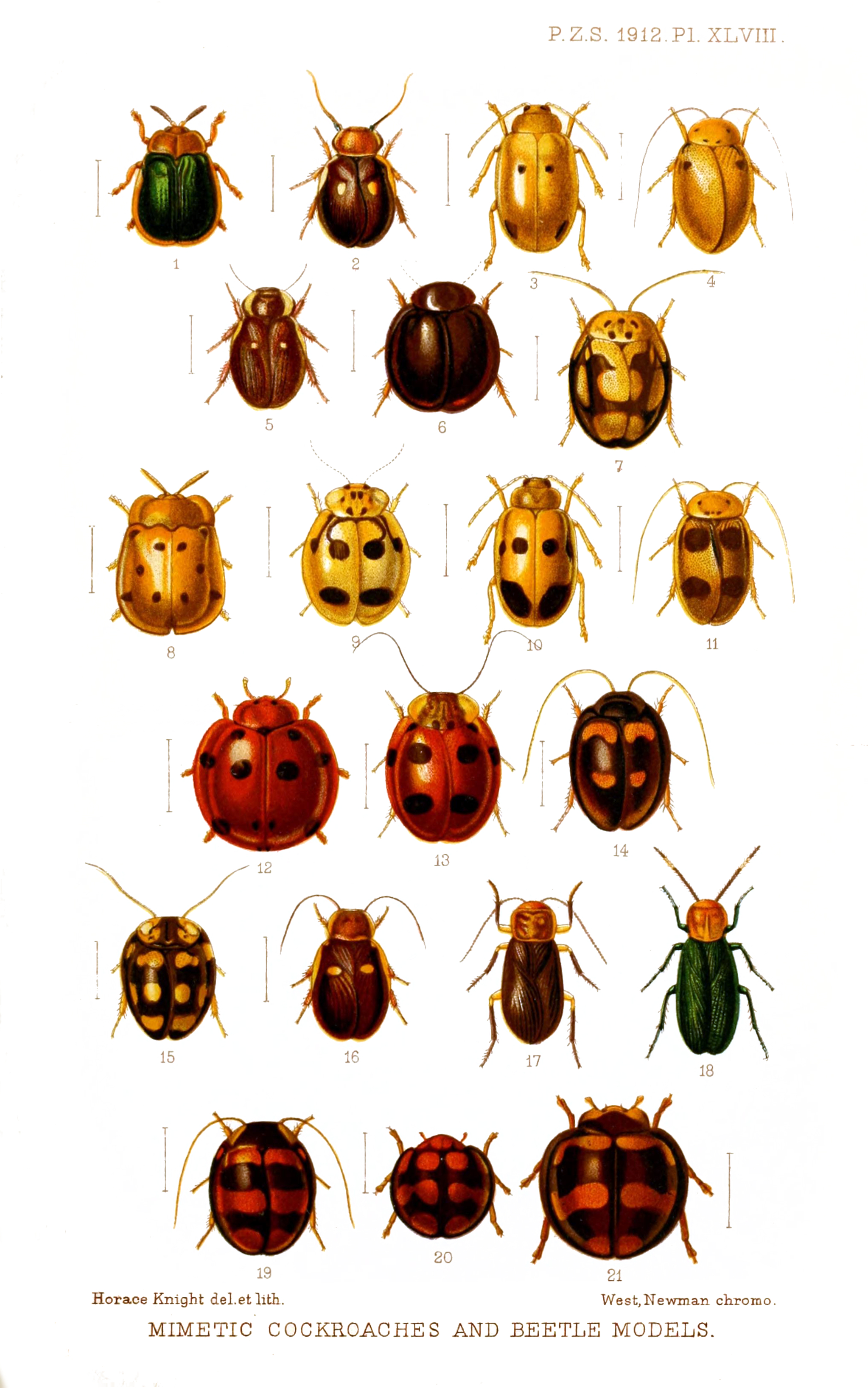 Plate by Horace Knight comparing Prosoplecta spp cockroaches with the beetles they are thought to mimic EXPLANATION OF PLATE XLVIIL 1. Megapyga eximia Boh. 2. Prosoplecta bipunctata Br. 3. Oides biplagiata Jac. 4. Prosoplecta trifaria Walk. 5. Prosoplecta coccinella Sauss. 6. Prosoplecta nigra, sp. n. 7. Prosoplecta gutticollis Walk. 8. Prioptera sinuata Oliv. 9. Prosoplecta nigroplagiata, sp. n. 10. Oides biplagiata Jac., var. 11. Prosoplecta trifaria Walk. 12. Leis dunlopi Crotch. = Harmonia dunlopi (Crotch, 1874) 13. Prosoplecta semperi, sp. n. 14. Prosoplecta quadriplagiata Walk. 15. Prosoplecta mimas, sp. n. 16. Prosoplecta rufa Kirby 17. Melyroidea mimetica, sp. n. 18. Melyroidea magnifica, sp. n. 19. Prosoplecta coelophoroides, sp. n. 20. Anisolemnia distaura Muls. 21. Coelophora formosa Crotch.